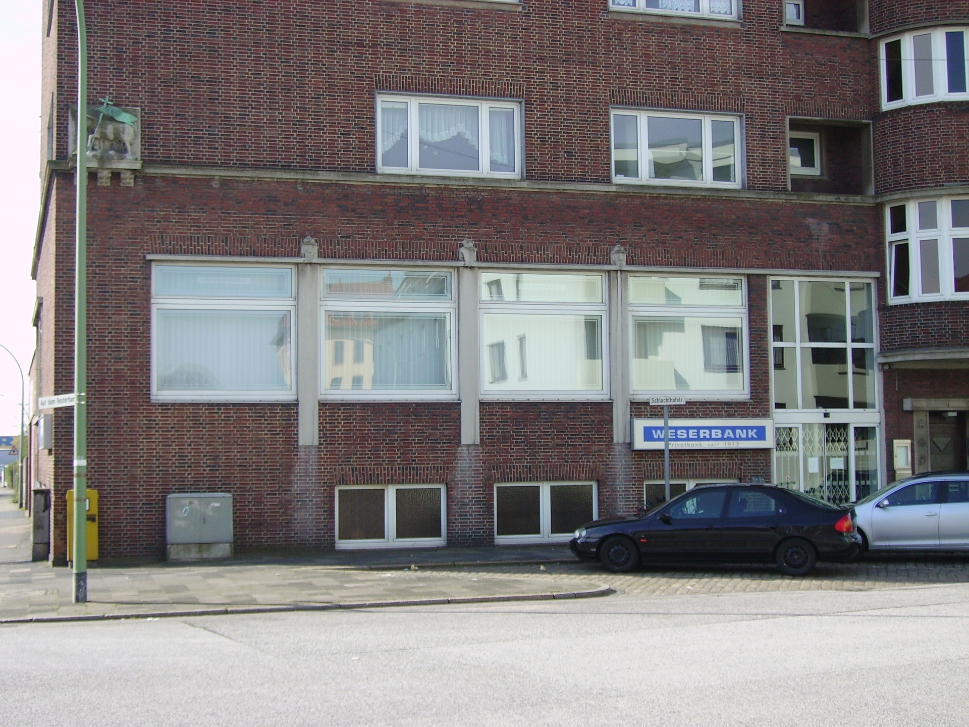 The Weserbank in Bremerhaven. The bank has been closed by the state supervision of banking on 9 April 2008